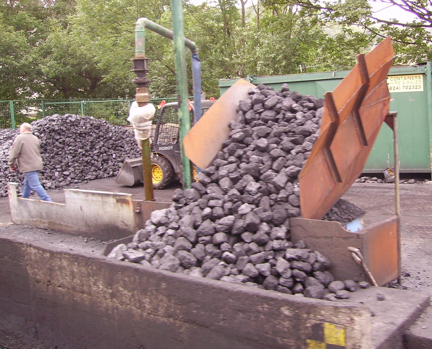 view of Snowdonia in Wales